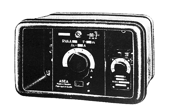 I created this painting by pencil and Adobe Photoshop from a general catalog and now I share it in public. Feel free to share and use!